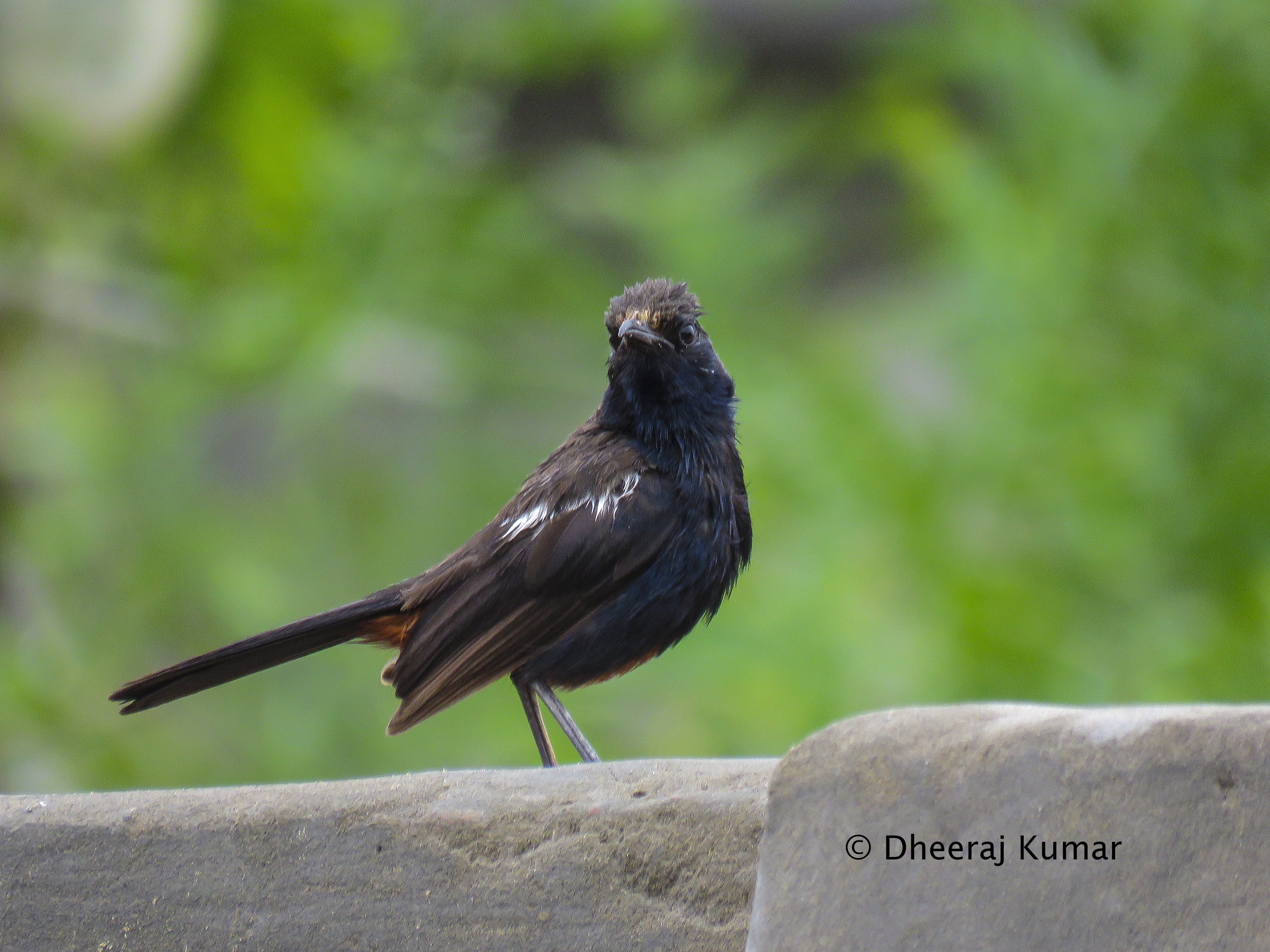 This is bird of thar